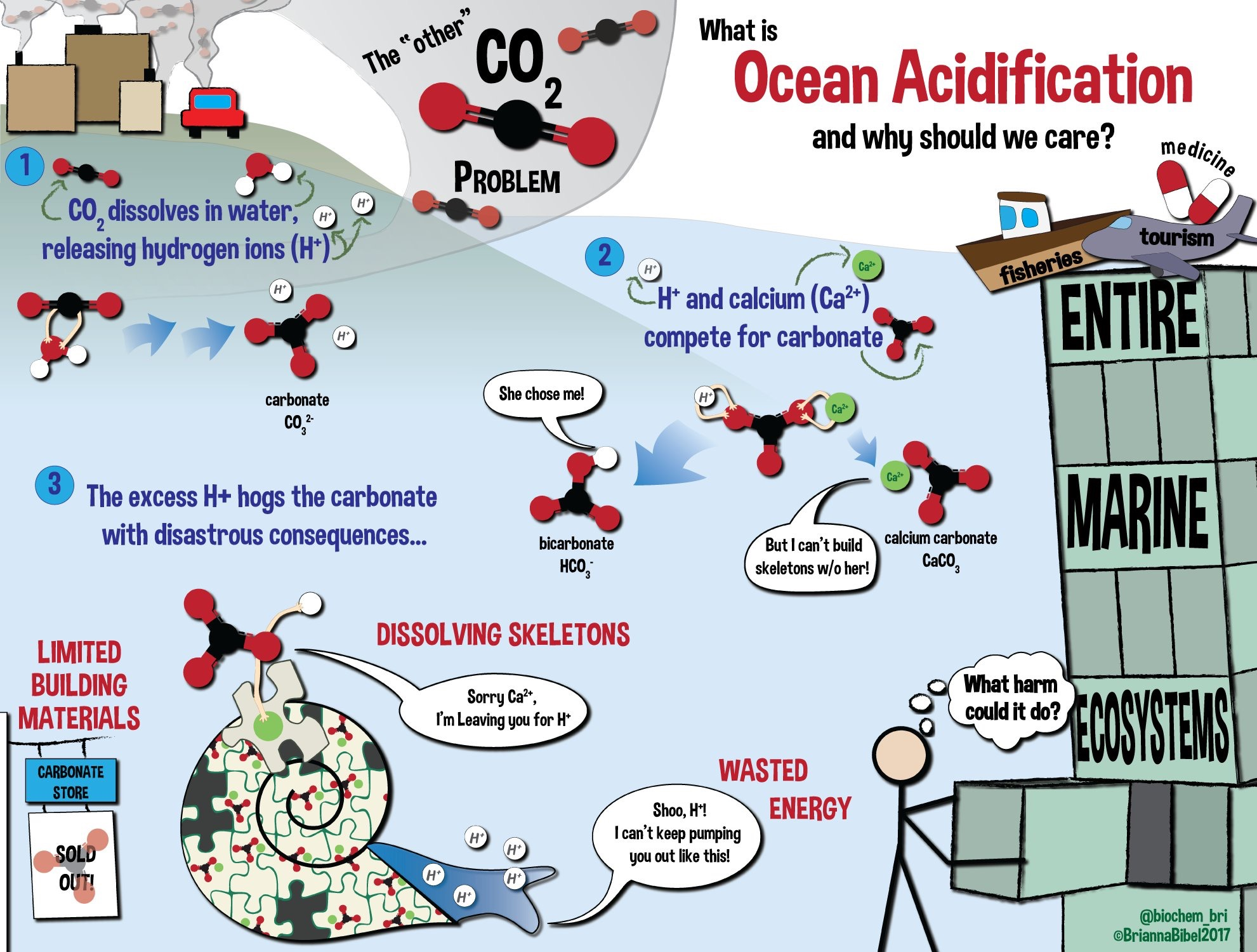 a fun infographic describing the causes and consequences of ocean acidification